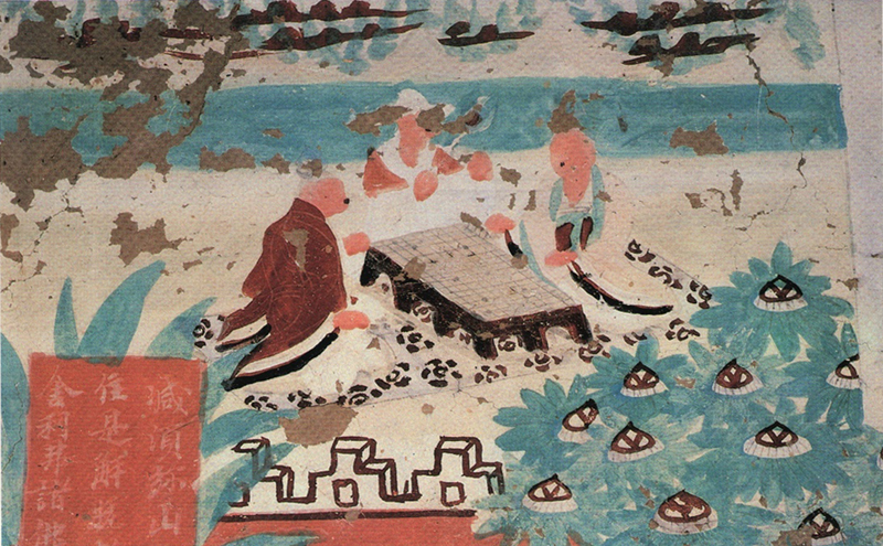 Five dynasties (907 – 979) period mural from Yulin Cave 32 (in Guazhou County, Gansu) illustrating the Vimalakirti Sutra 維摩詰經, showing a game of weiqi (Go) being played.